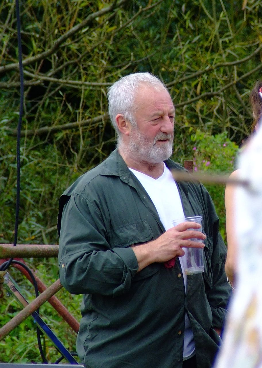 Bernard Hill, British actor who was Theoden in the Lord of the Rings films.